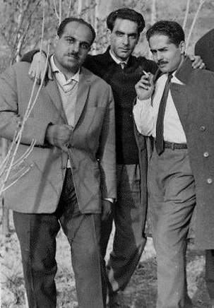 Right to left: Mehdi Akhavan Sales - Mohammad Ghahraman-Ali Bagherzadeh Bagha